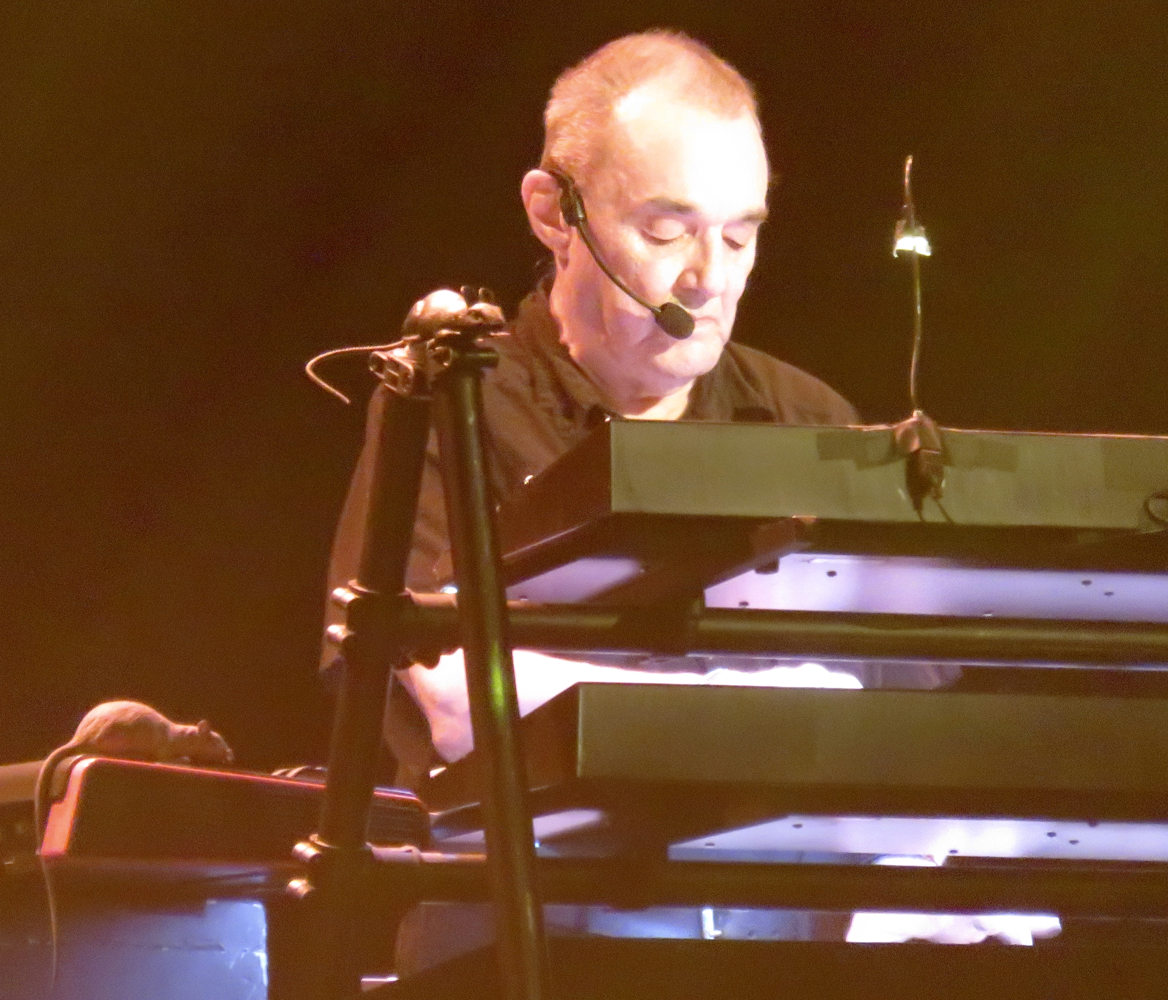 Dave Greenfield of The Stranglers performing at The Cambridge Corn Exchange with the group.